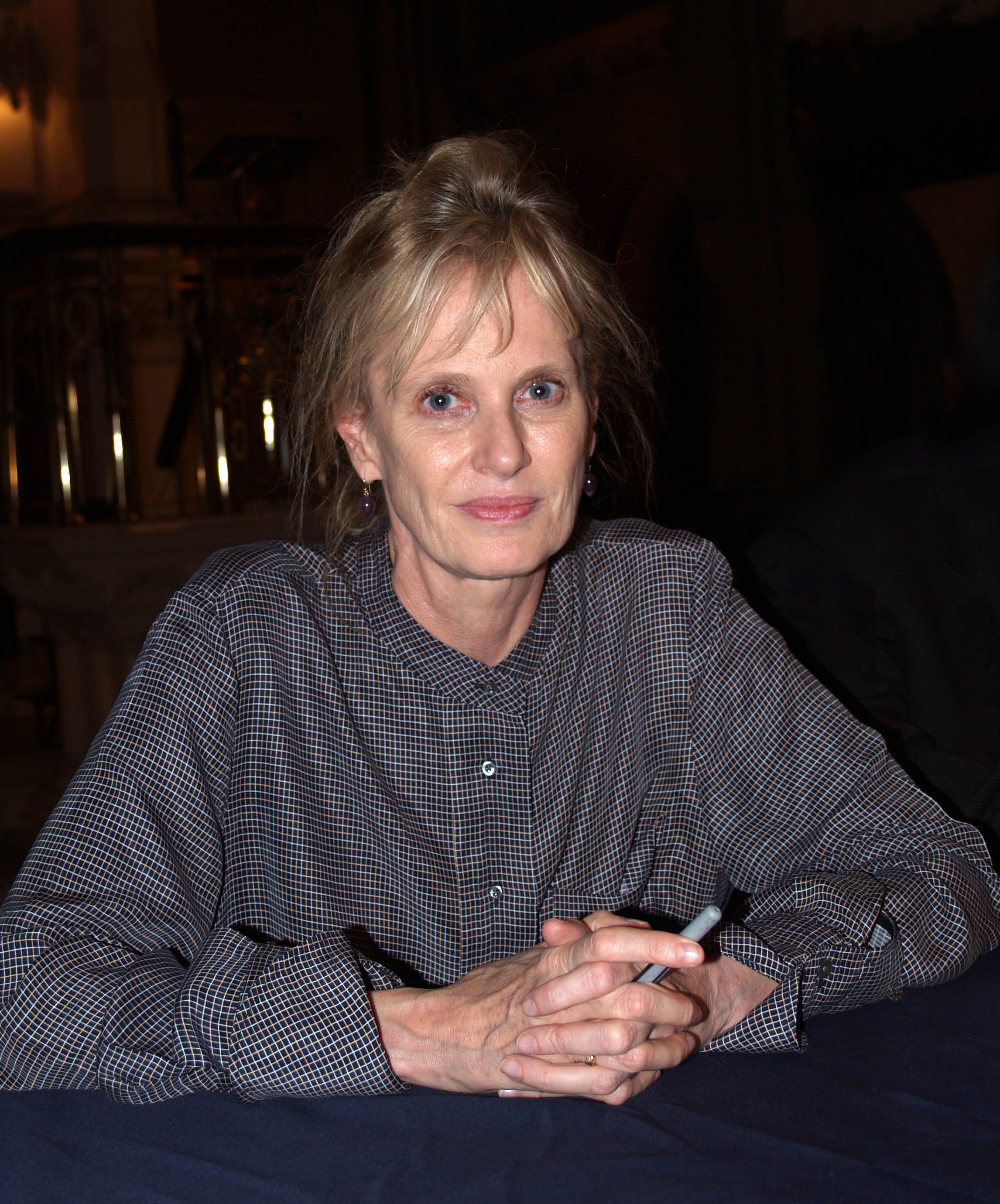 Novelist Siri Hustvedt following "The Writer's Life" panel at the the 2014 Brooklyn Book Festival.